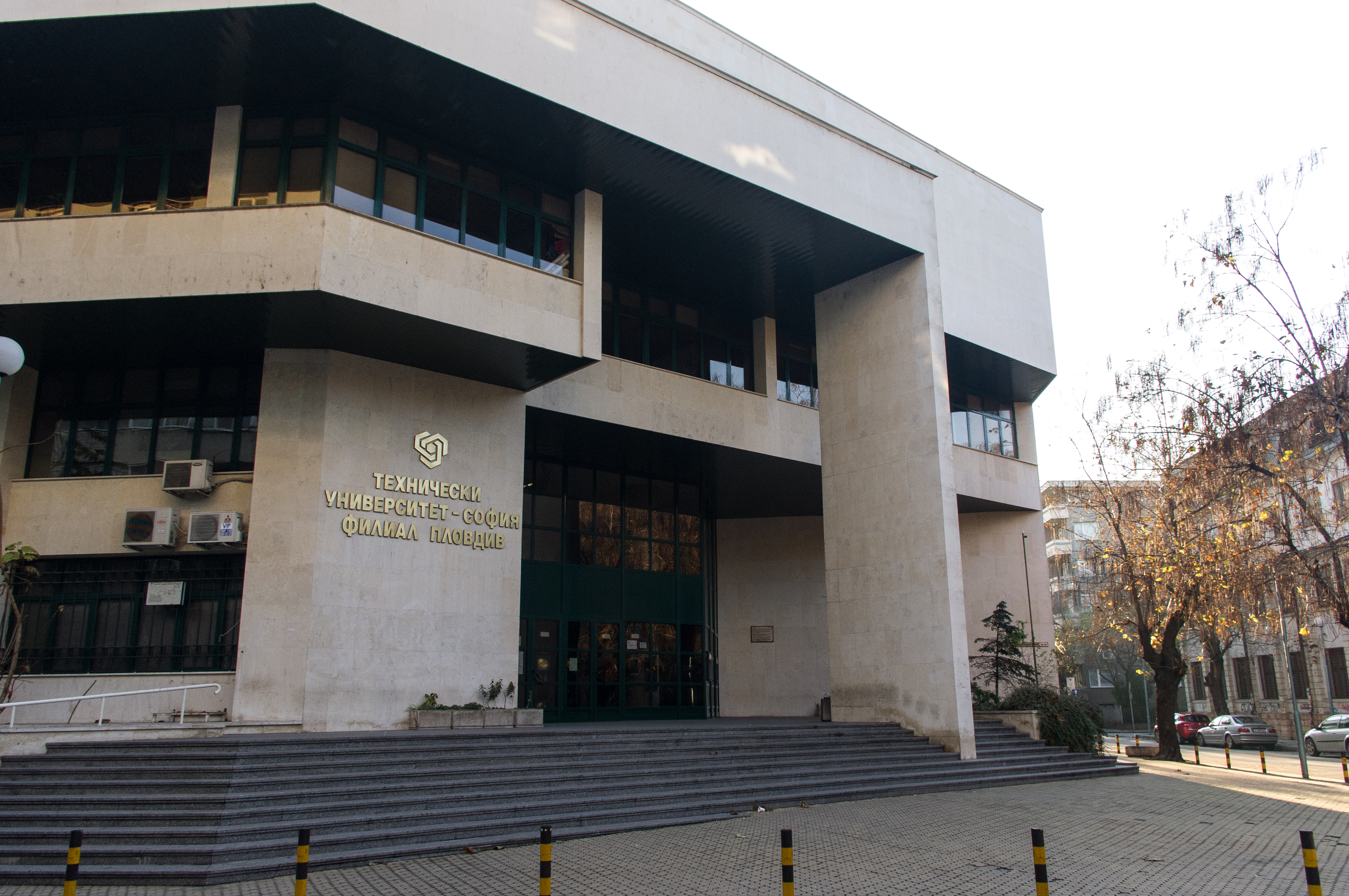 Technical University of Sofia, branch Plovdiv